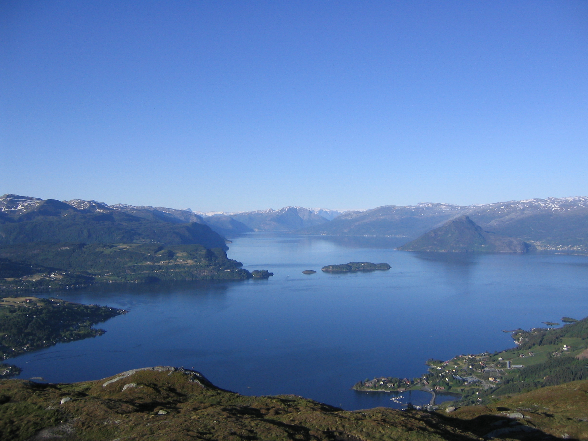 A view of the Hardangerfjorden from Krokavatn, near Norheimsund, Norway.